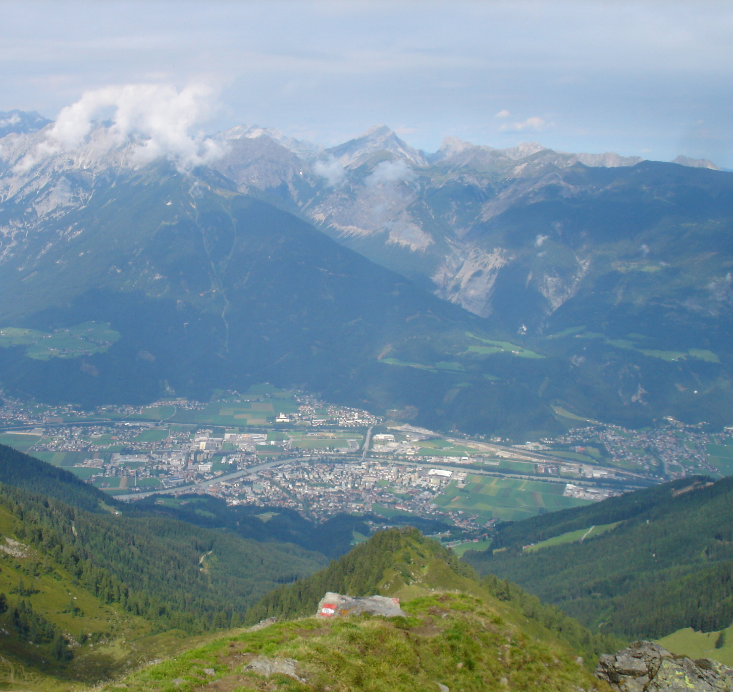 View from the Kellerjoch on Schwaz (Tyrol) and a part of the Unterinntall (Lower Inn Valley)